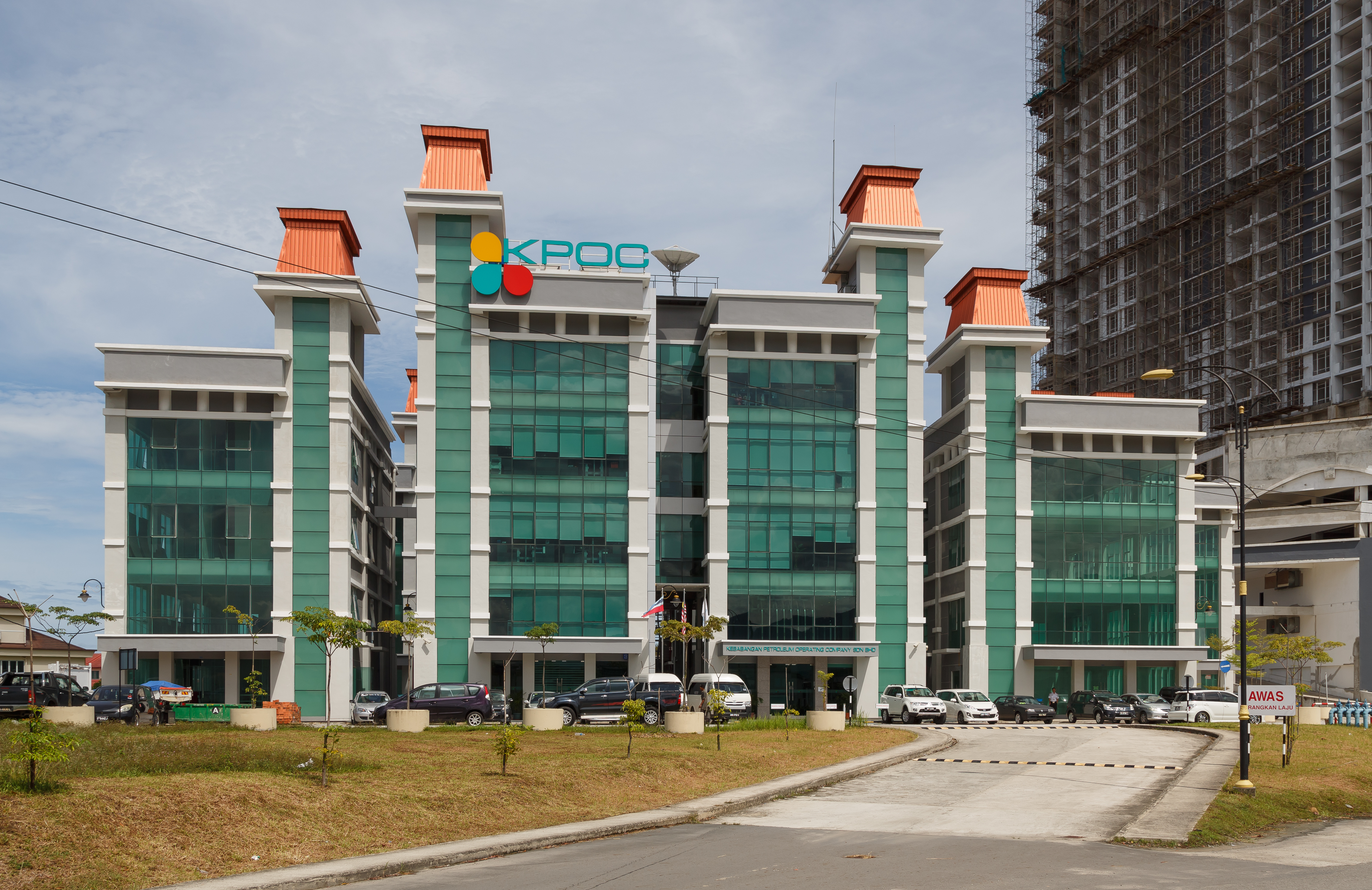 Kota Kinabalu, Sabah: Headquarters of KPOC (Kebabangan Petroleum Operating Company)